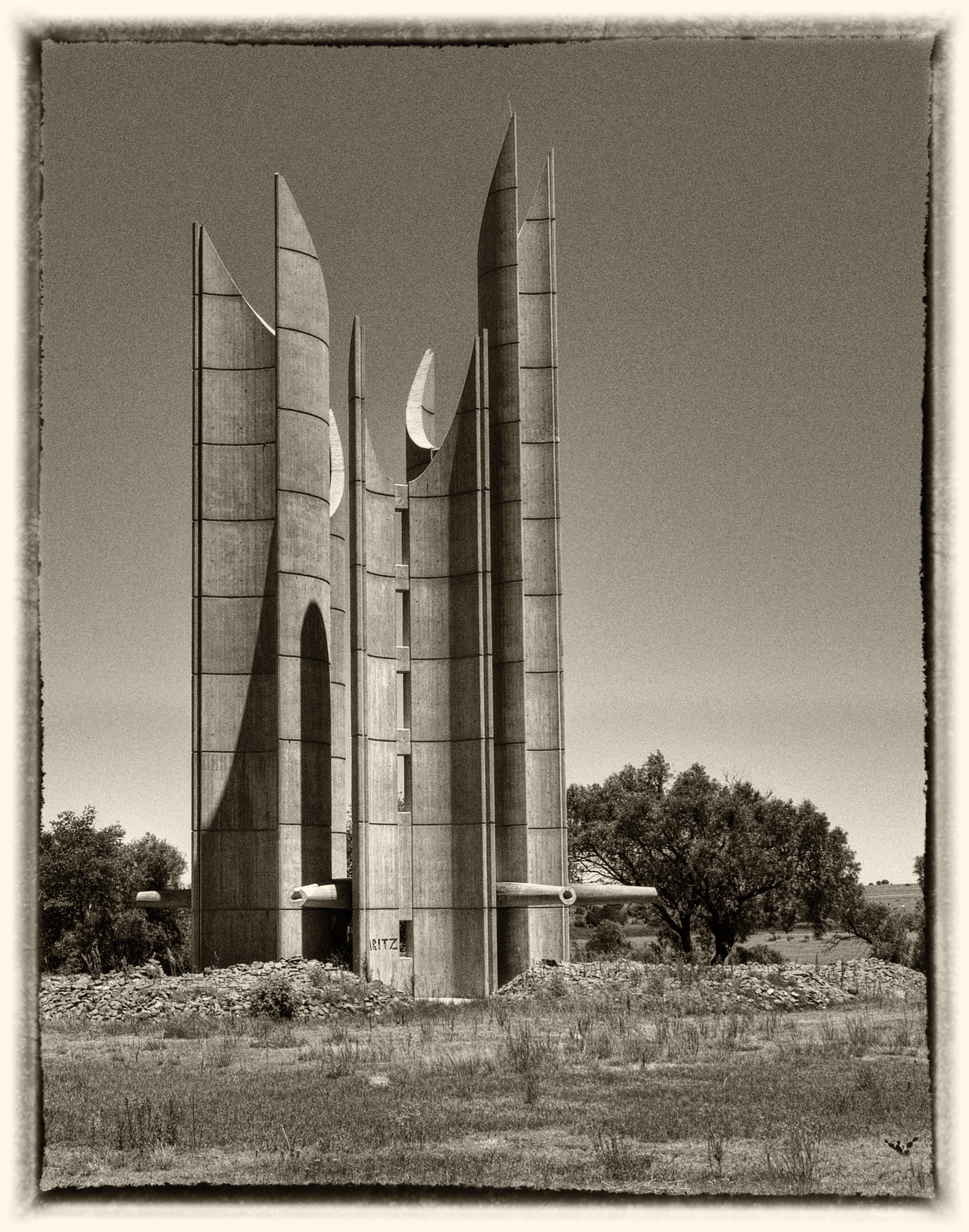 Voortrekker monument Winburg